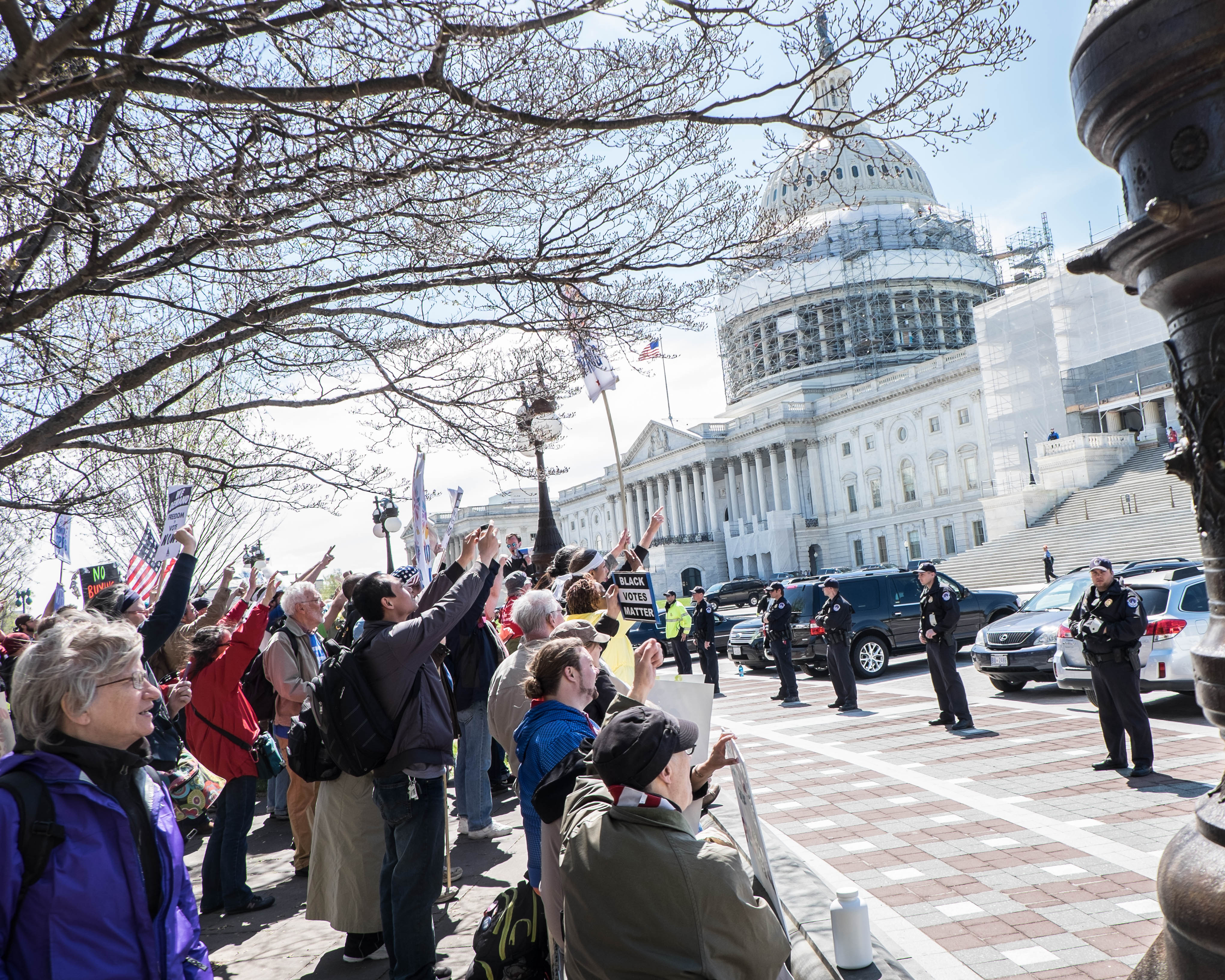 Democracy Spring "Elders" edition